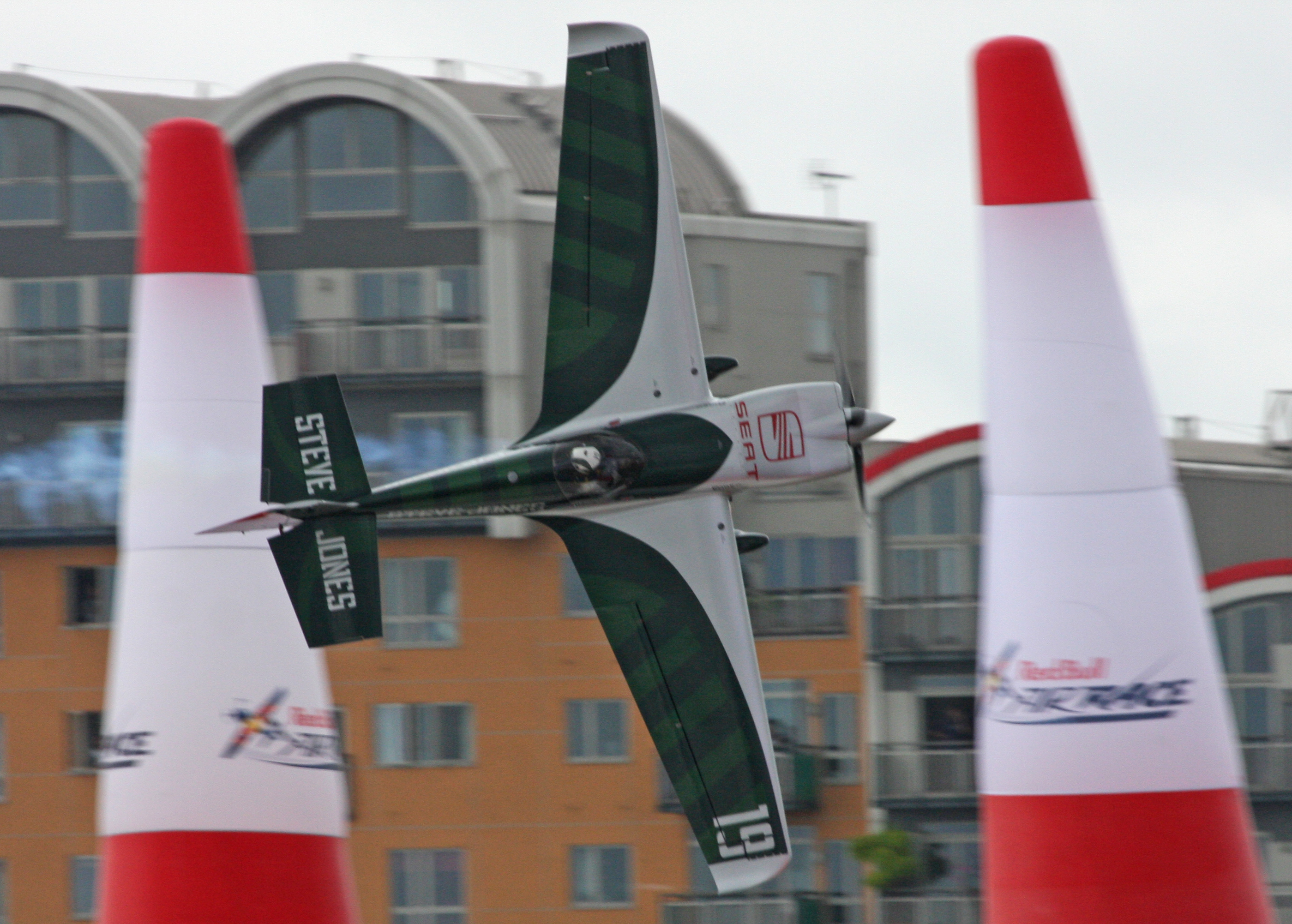 Steve Jones, Edge 540